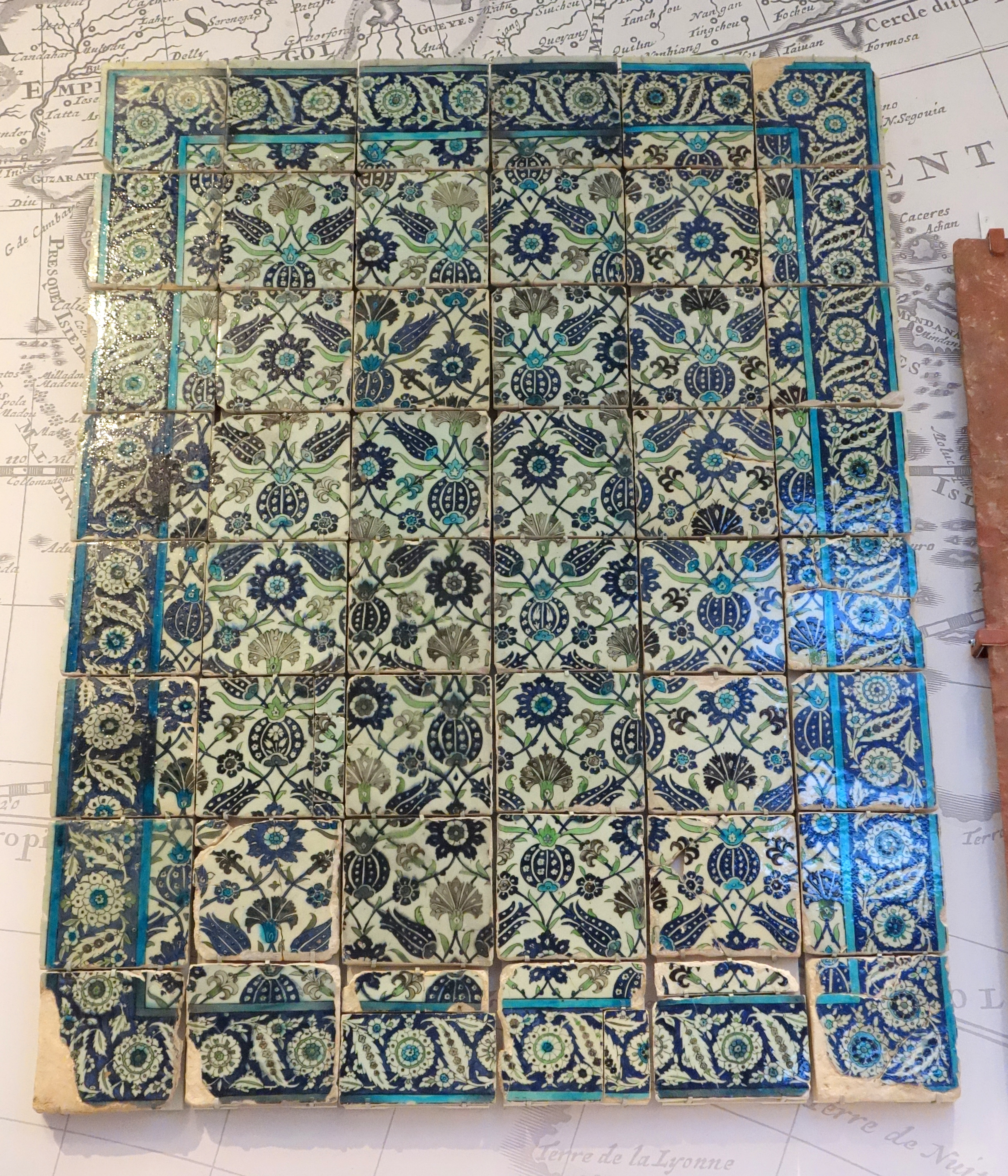 Exhibit in the Brooklyn Museum - Brooklyn, New York, USA. This artwork is in the public domain because the artist died more than 70 years ago.